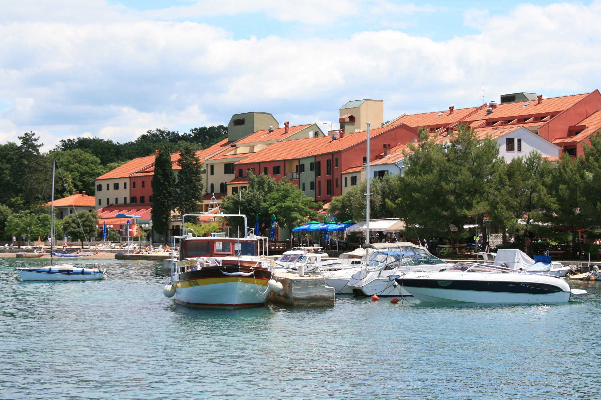 Boats in the harbor, Njivice - Croatia.